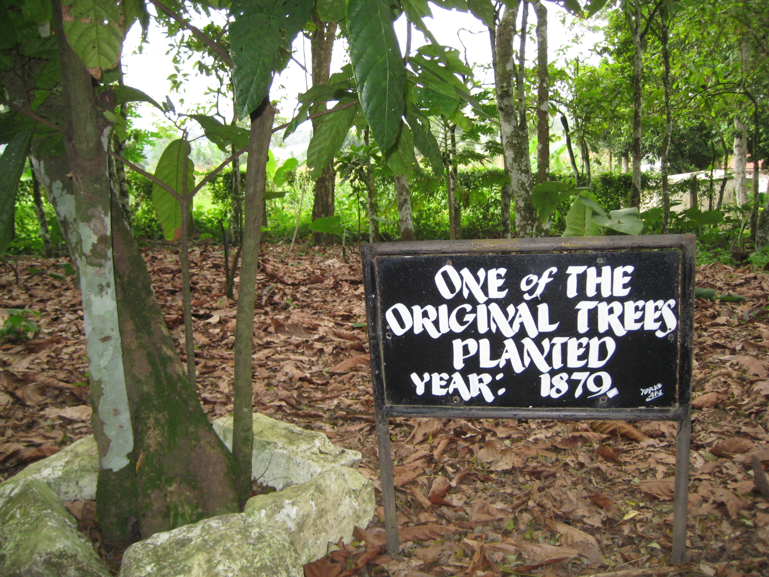 At the Tetteh Quarshie cocao farm - One of the first planted cocao trees in 1879.